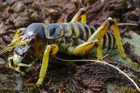 The Mountain Stone Weta, boasts perhaps the most extraordinary survival technique of all - the ability to come back from the dead. With the aid of a specialized filming chamber we are able to witness stunning footage of life slowly returning to this frozen insect. Taken From wild New Zealand